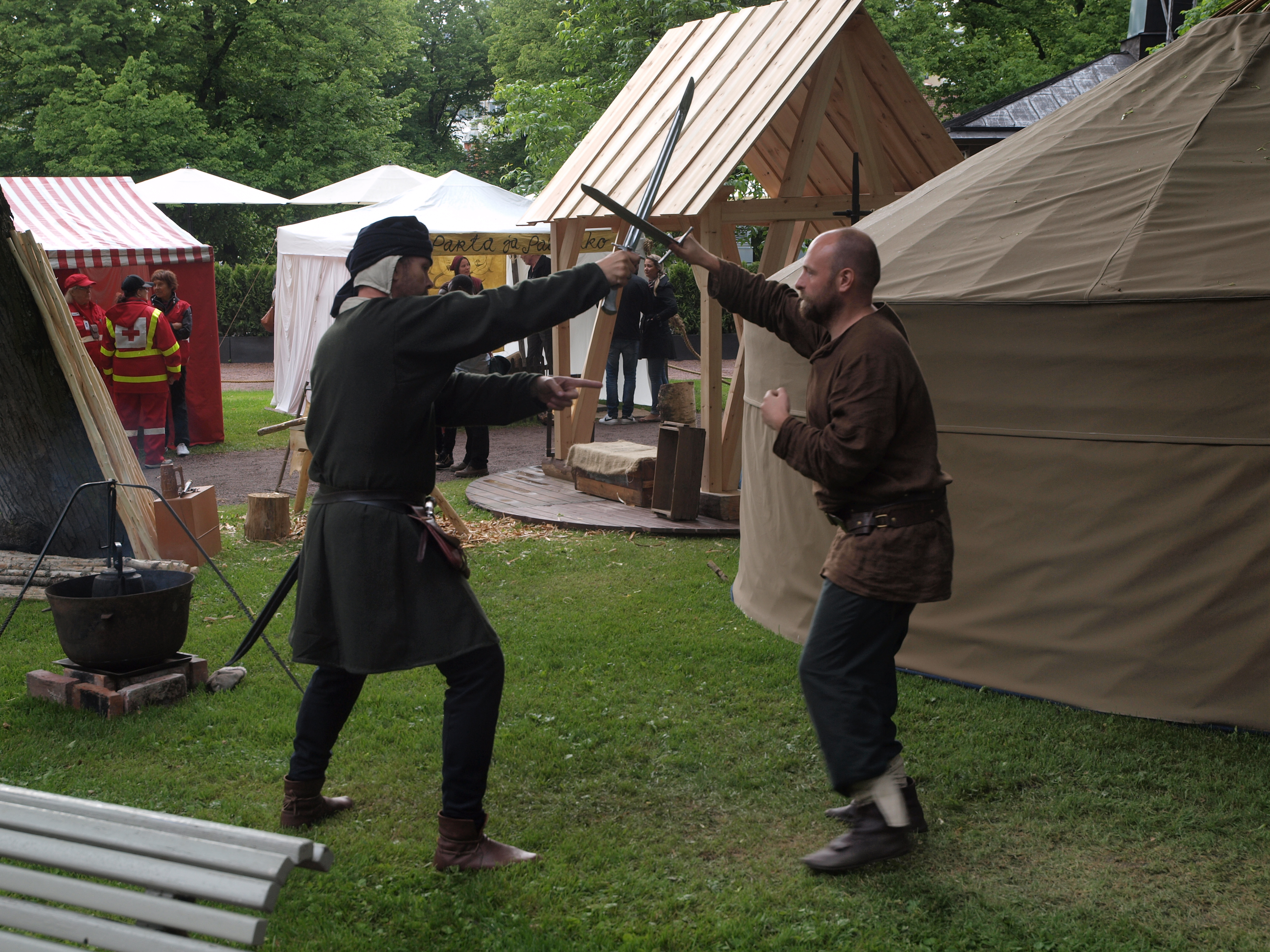 Two men in Medieval costumes, having a pretend fight with swords, at the Turku Medieval market 2015 in Turku, Finland Proper (I still refuse to call it "Southwest Finland"), Finland.